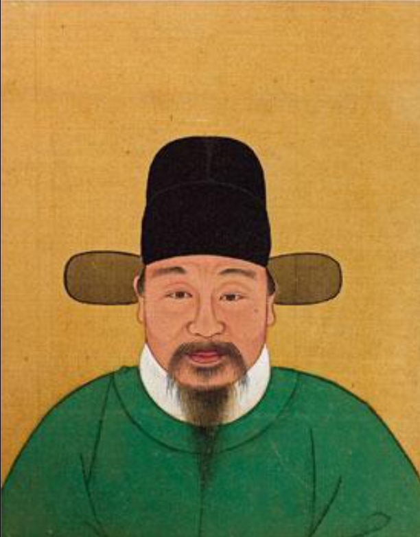 Cai Qing, politician of the Ming Dynasty.